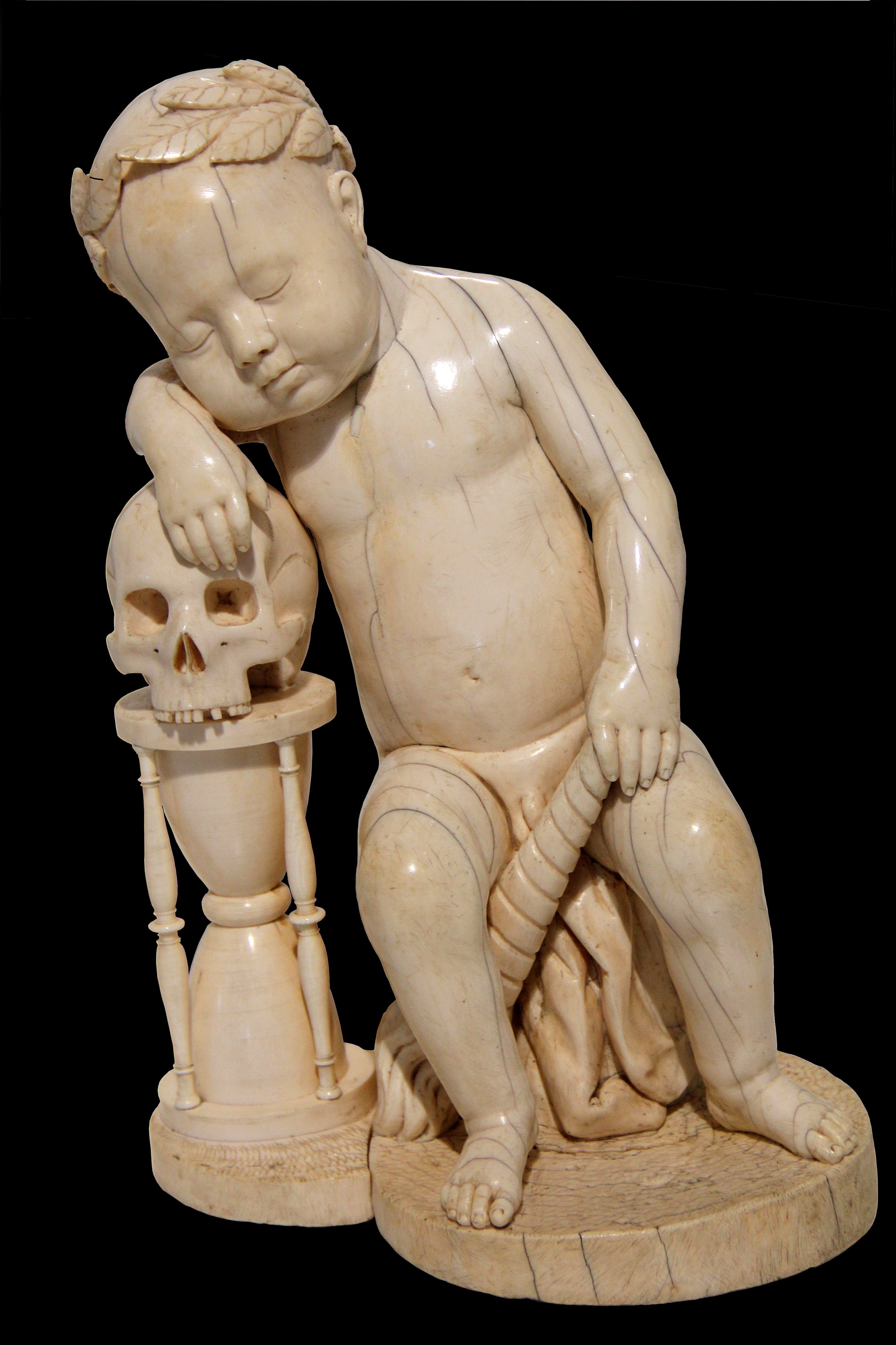 "Enfant endormi" (Sleeping Child), small ivory statue made by the entourage of Leonhard Kern belonging to the Louvre Museum, photographed during the exhibition «Le Temps à l'œuvre» (The Time on work) in the "Pavillon de verre" (Glass gallery) in the Louvre-Lens.